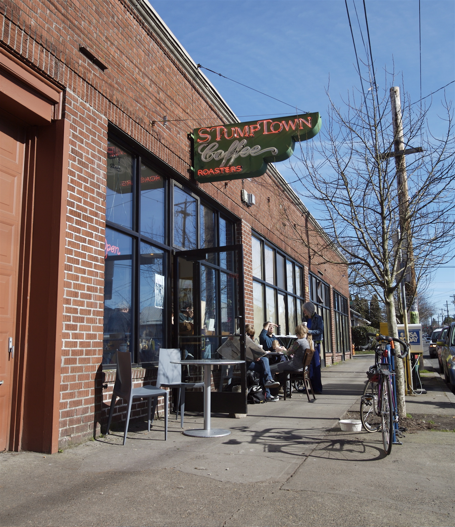 The original Stumptown Coffee Roasters located at 45th and Division in Portland, Oregon.